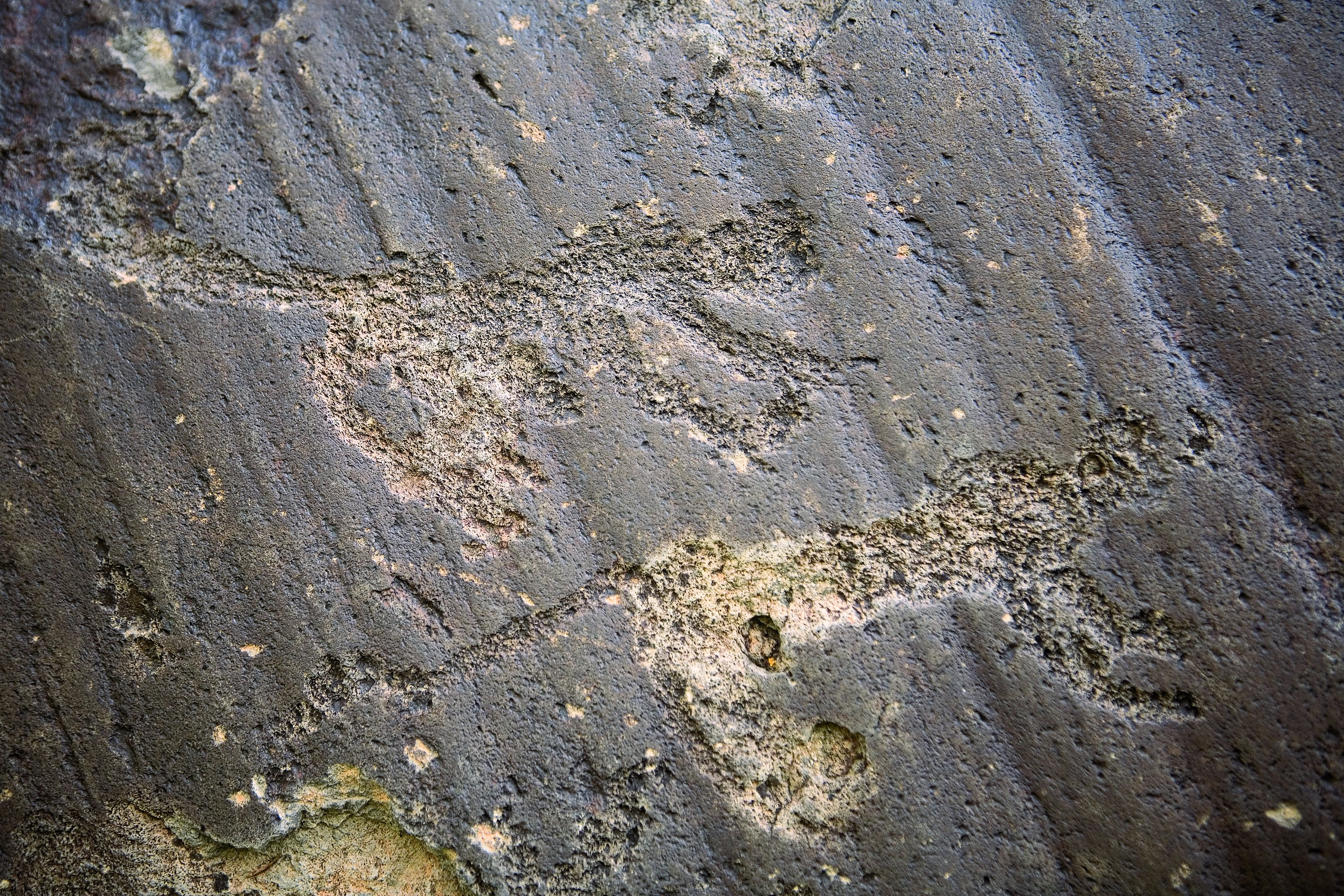 The Petroglyphs of a Couple of Leopards on the Serpent Mountain